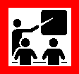 Training